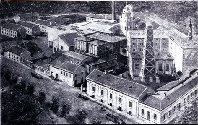 Bajlonijeva pivara